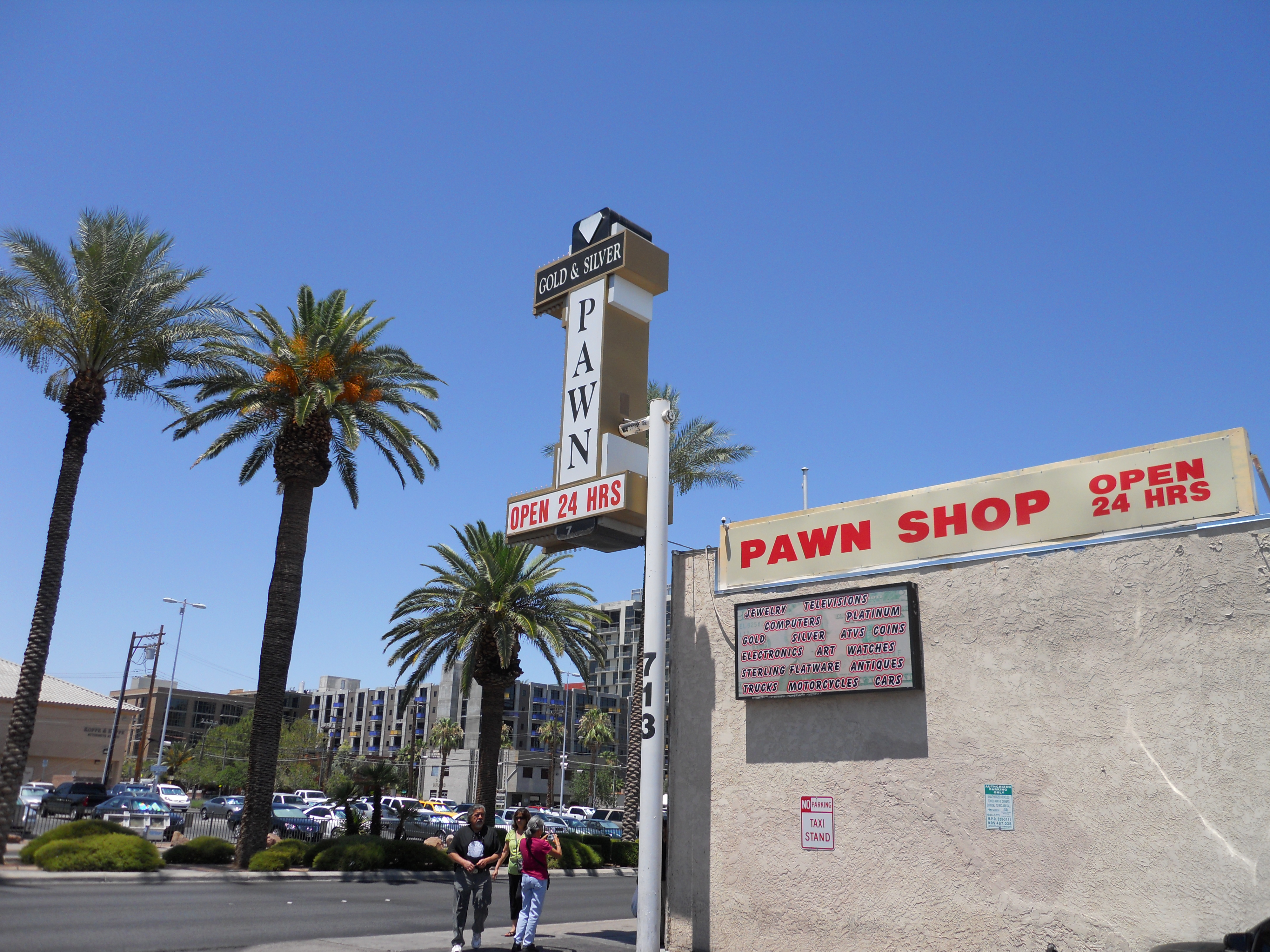 The pawn shop that the show "Pawn Stars" follows